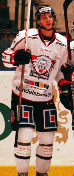 Mattias Bäckman during a SHL game against AIK.